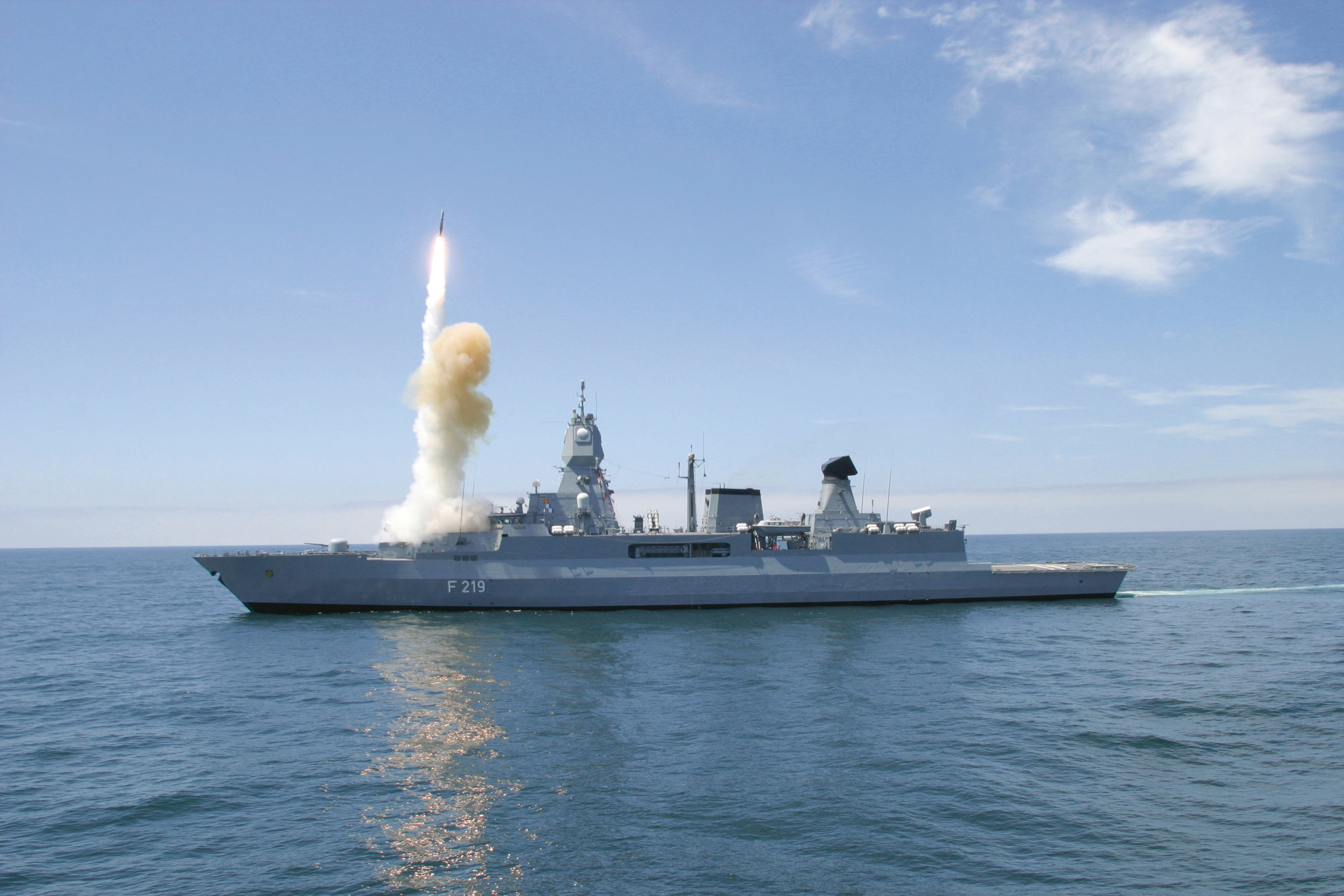 German frigate F124 Sachsen launching a type SM 2 missile.